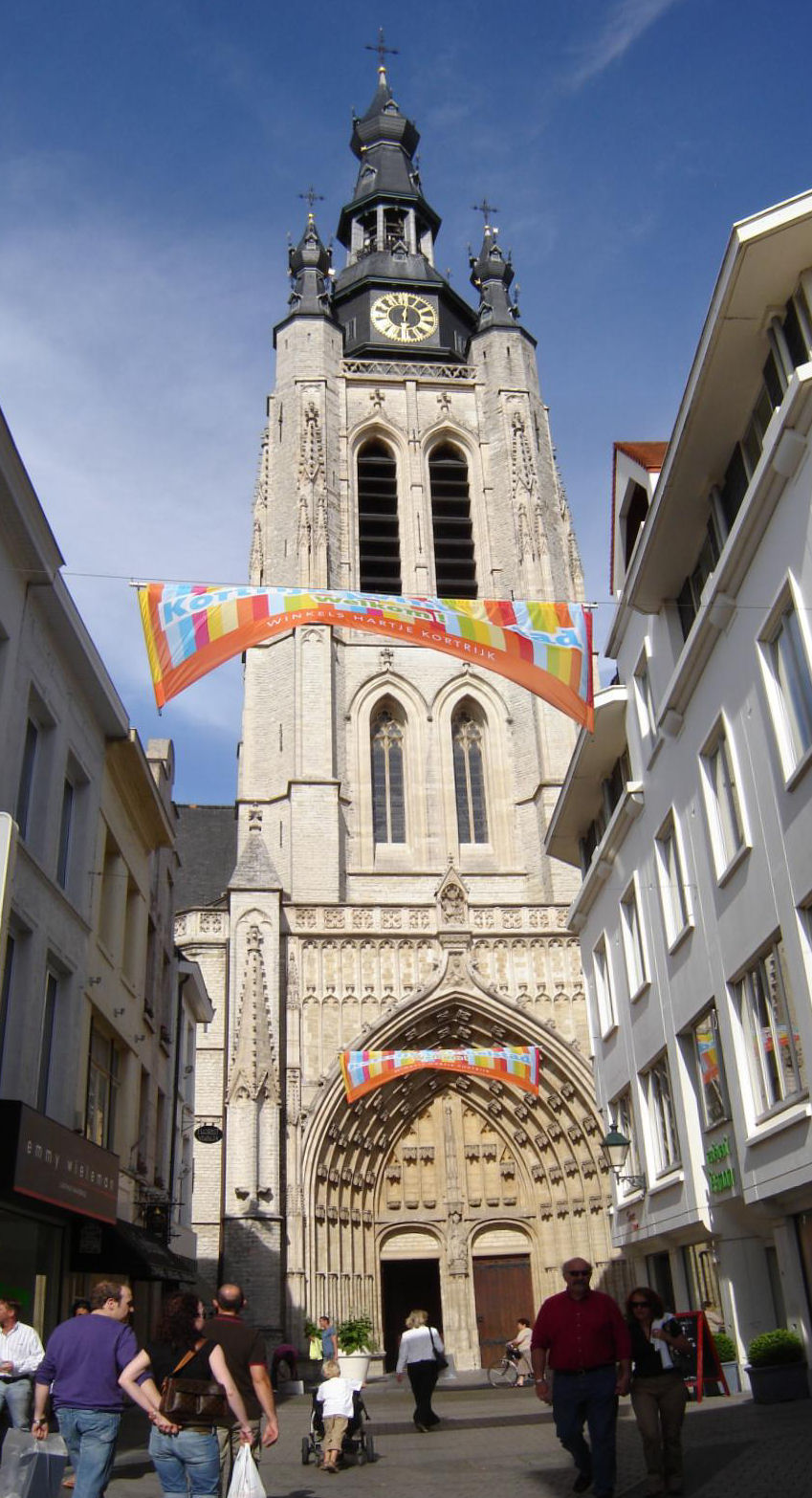 Church of Saint Martin in Kortrijk, West Flanders, Belgium.